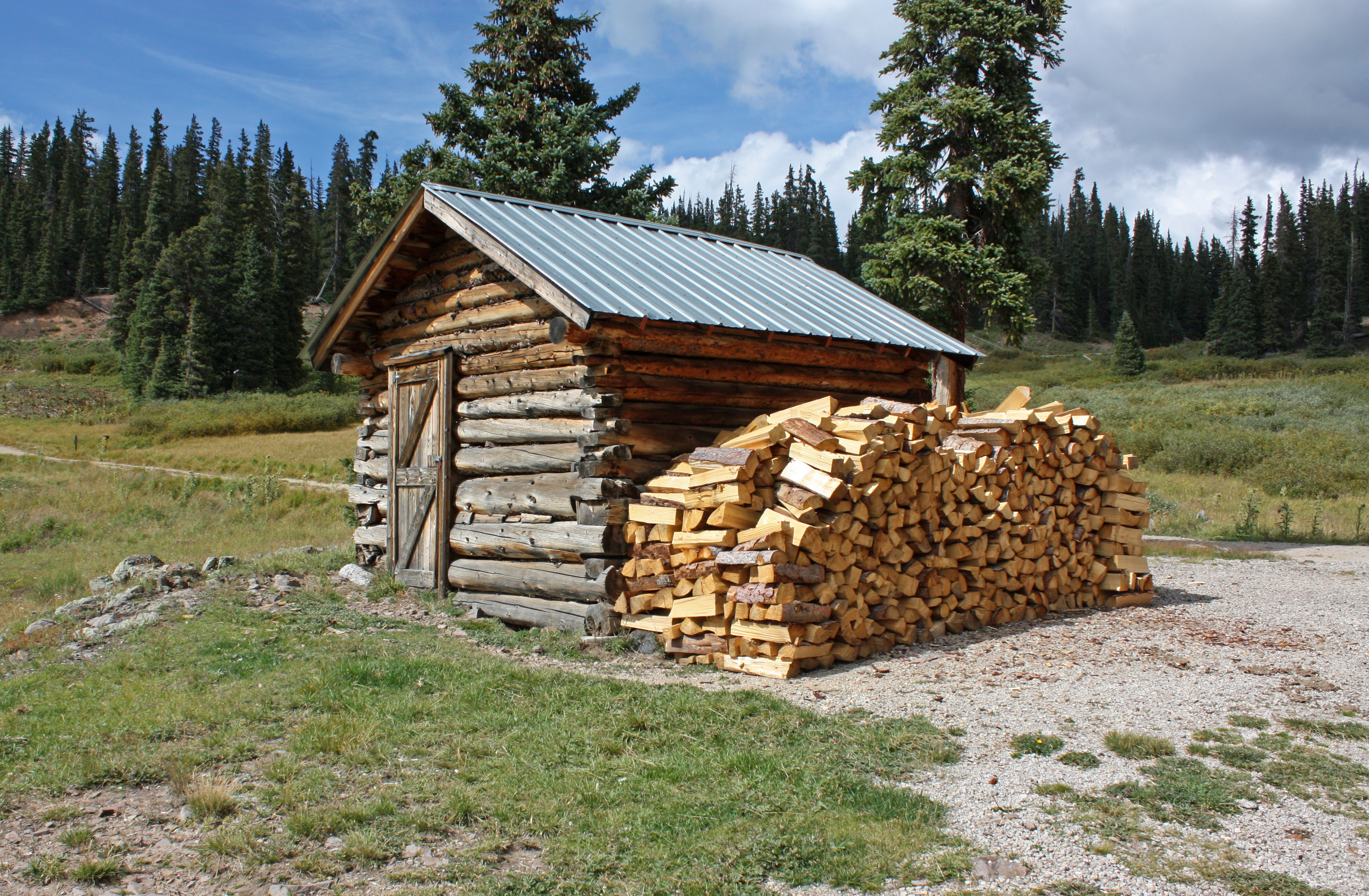 This is a wood shed next to a log cabin in the southern Rocky Mountains. Photo September 2013.